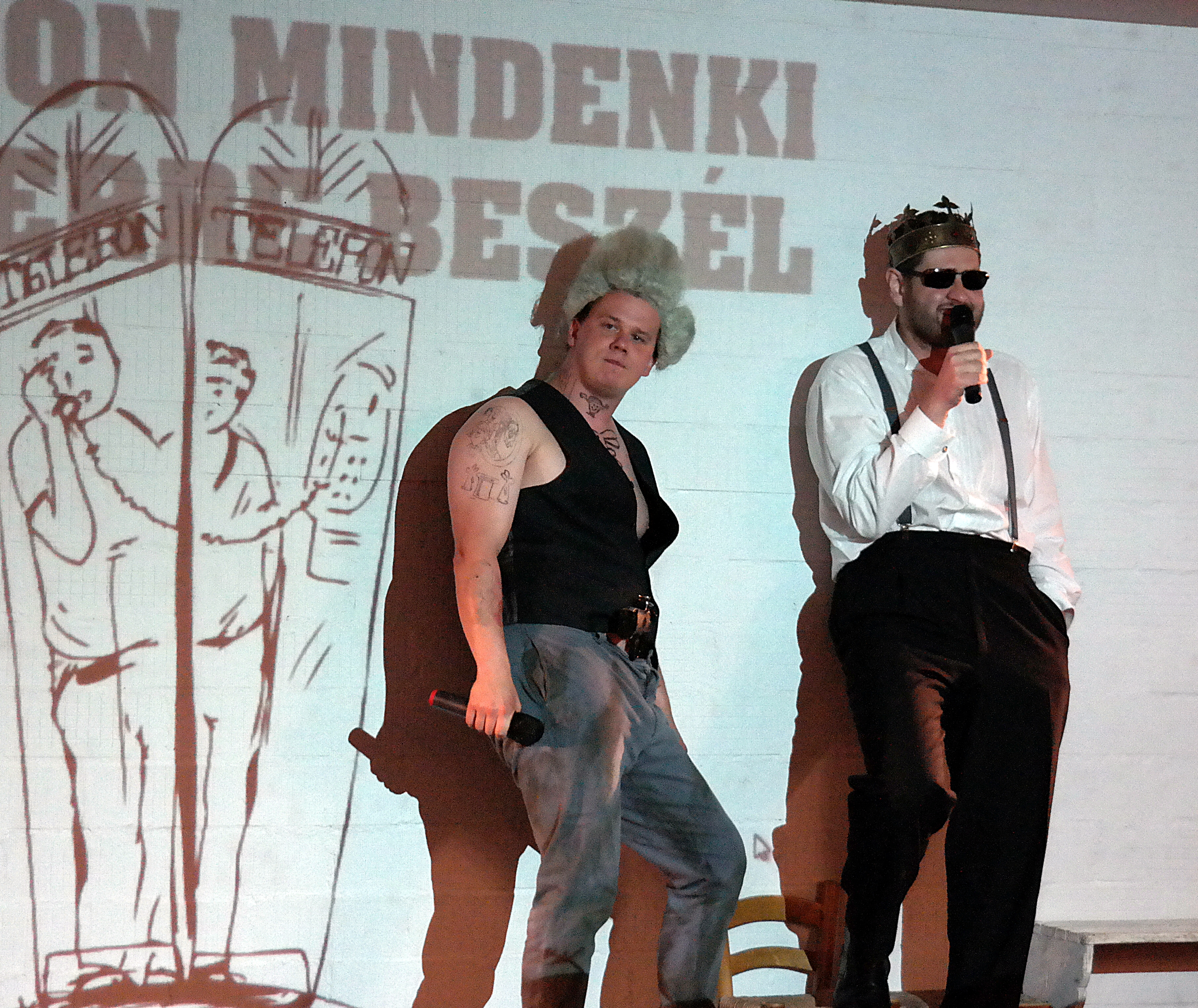 András Ötvös and Milán Vajda